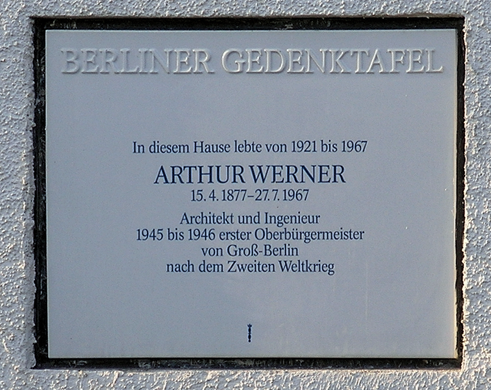 Berlin memorial plaque, Arthur Werner, Köhlerstraße 22, Berlin-Lichterfelde, Germany Koordinate:52°26′12″N 13°17′22″E / 52.43667°N 13.28944°E